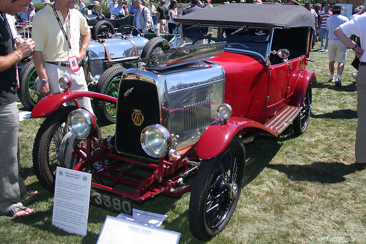 1924 Aston Martin sidevalve 4-seat tourer, chassis 1949, [1]. This is a "Lionel Martin" with original bodywork (rare), "XX 3380" (s/n 1949) was made in 1924 at 53 Abingdon Road, Kensington, London. The last of 26 cars built by Bamford & Martin Ltd. "Priced at £720, 'XX 3380' was sold by London agents G.L. Francis of 110 Great Portland Street on 5th March 1925. Little is known about the car until it was purchased by C.L. Christiansen in 1949 and restored privately over the following 5 years. The car was then used as family transport until 1957 when it was put into storage for the next 47 years."[2]. Christopher J. Lendrum, chairman of the Aston Martin Heritage Trust then owned it, had it restored by Ecurie Bertelli Ltd.[3] These early cars all had the same four cylinder 1486 cc side valve engine with what at the time would have been a heady power output of around 40 bhp allowing for a top speed in the region of 77 mph[4] Del Monte Forest, California, United States Pebble Beach Concours dElegance 2007